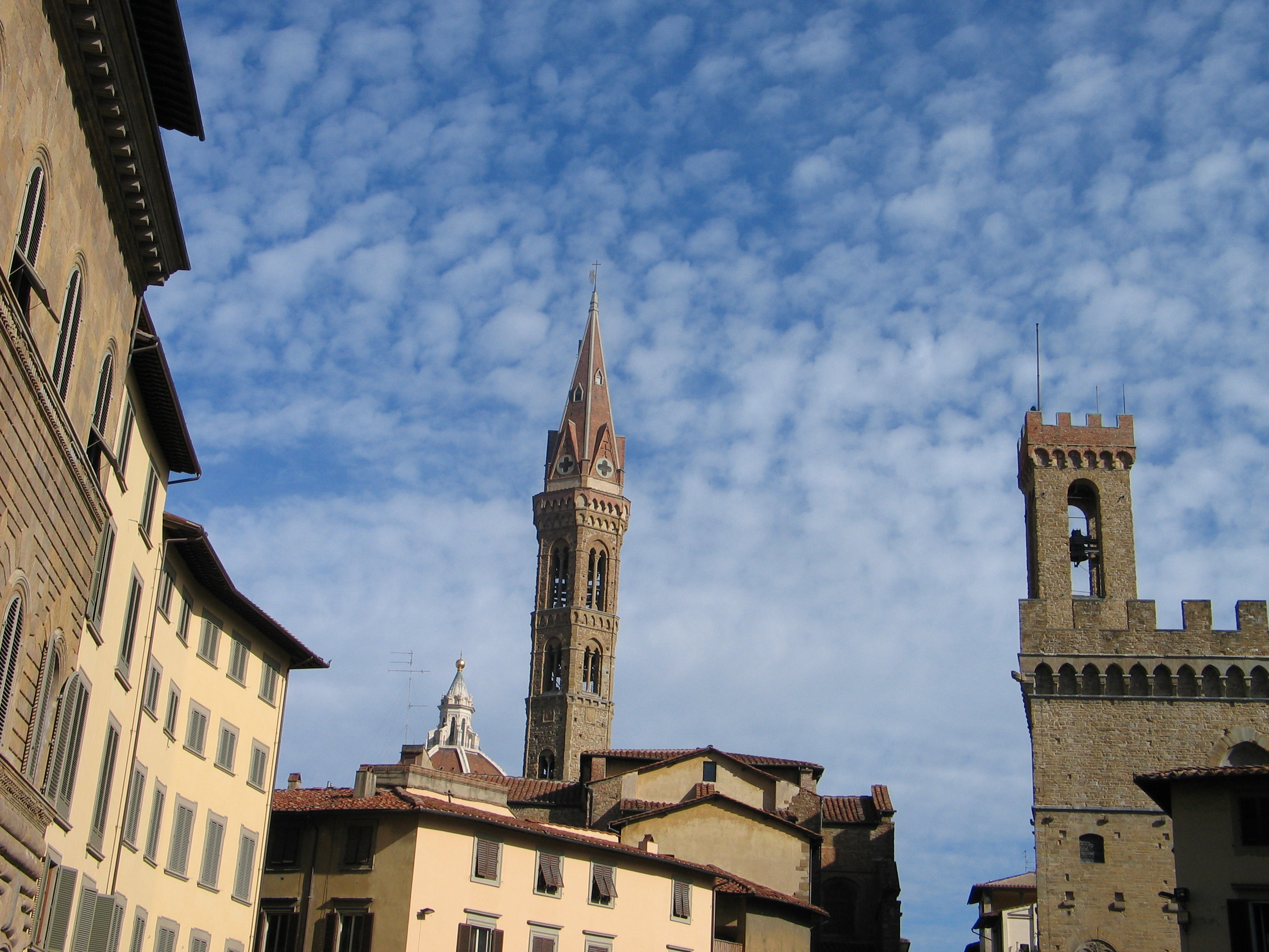 view in Firenze